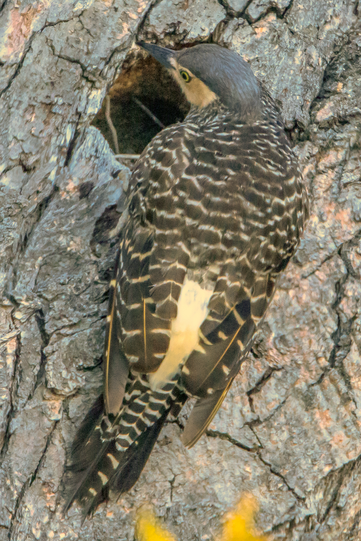 a quick visit to Perito Moreno Glacier...Chilean Flicker (Coloptes pitius)...